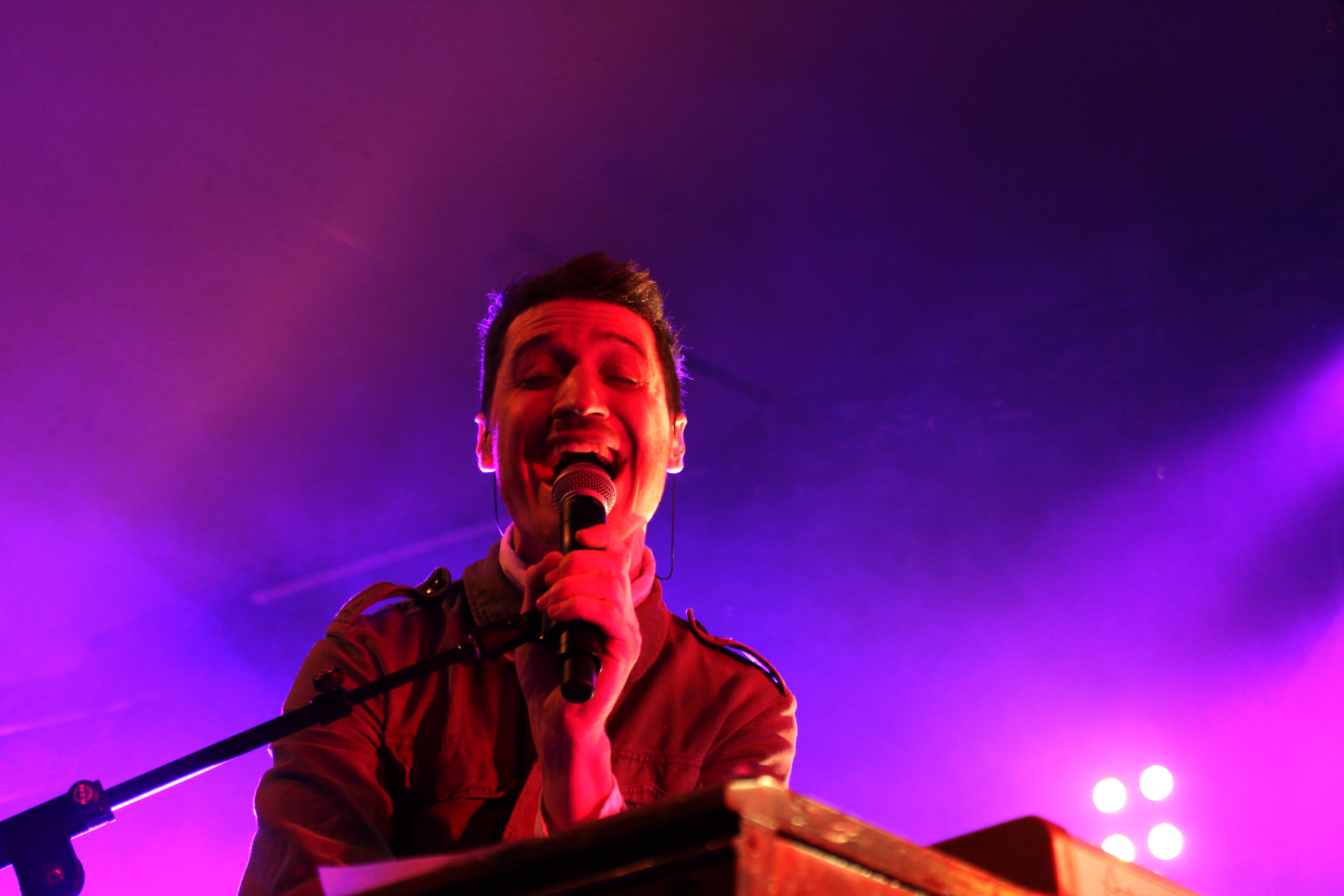 Mutemath performing on January 27, 2012 in Austin, Texas.